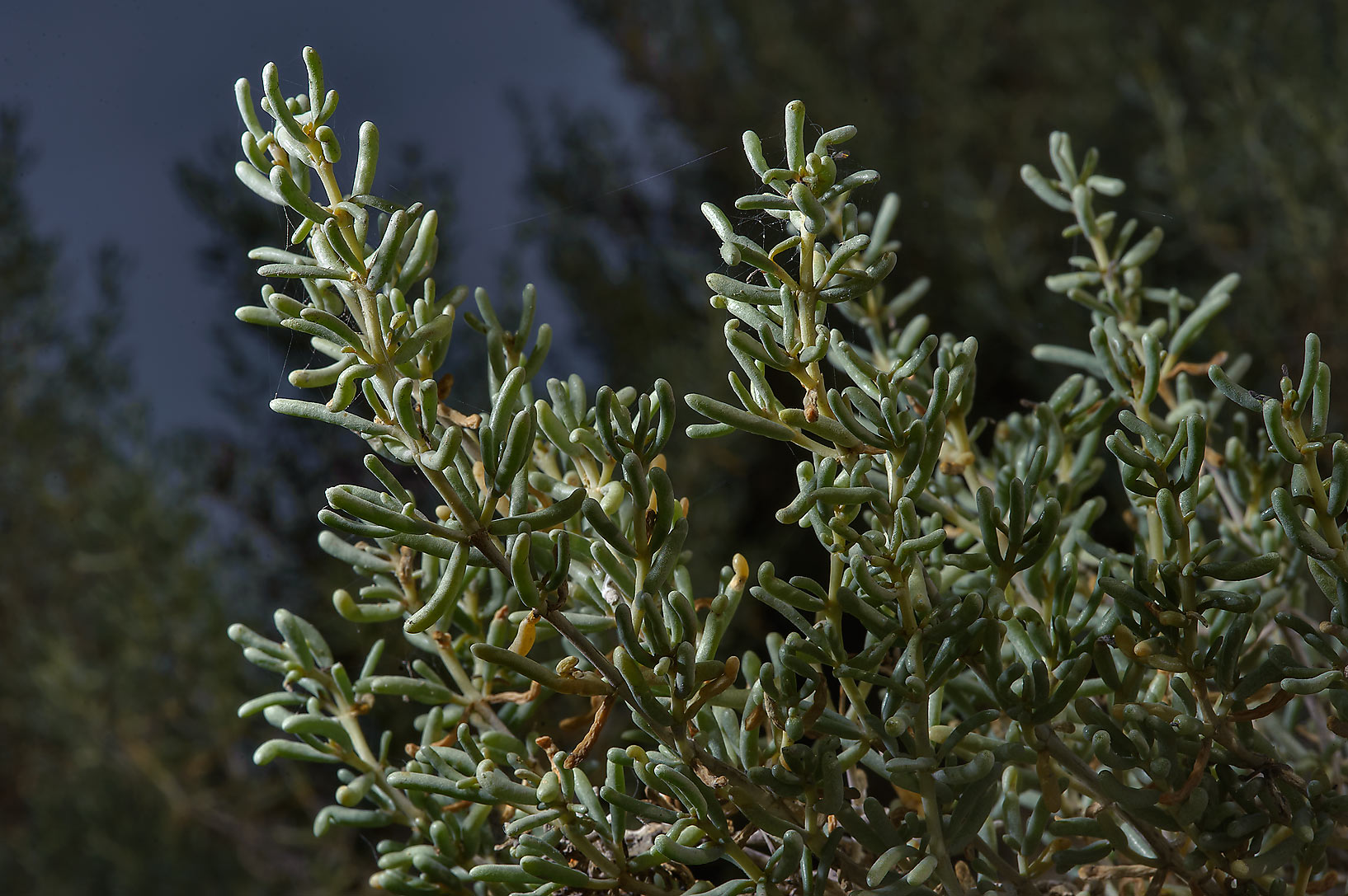 Bush of Seidlitzia rosmarinus in Mesaieed, eastern Qatar.